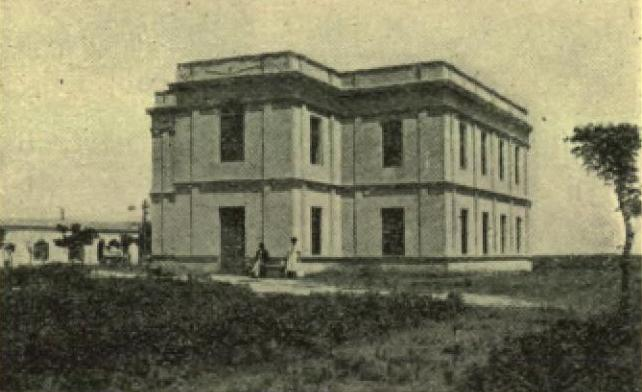 1909 Picture of Seventh-day Adventist Rio de la Plata Academy, Argentina